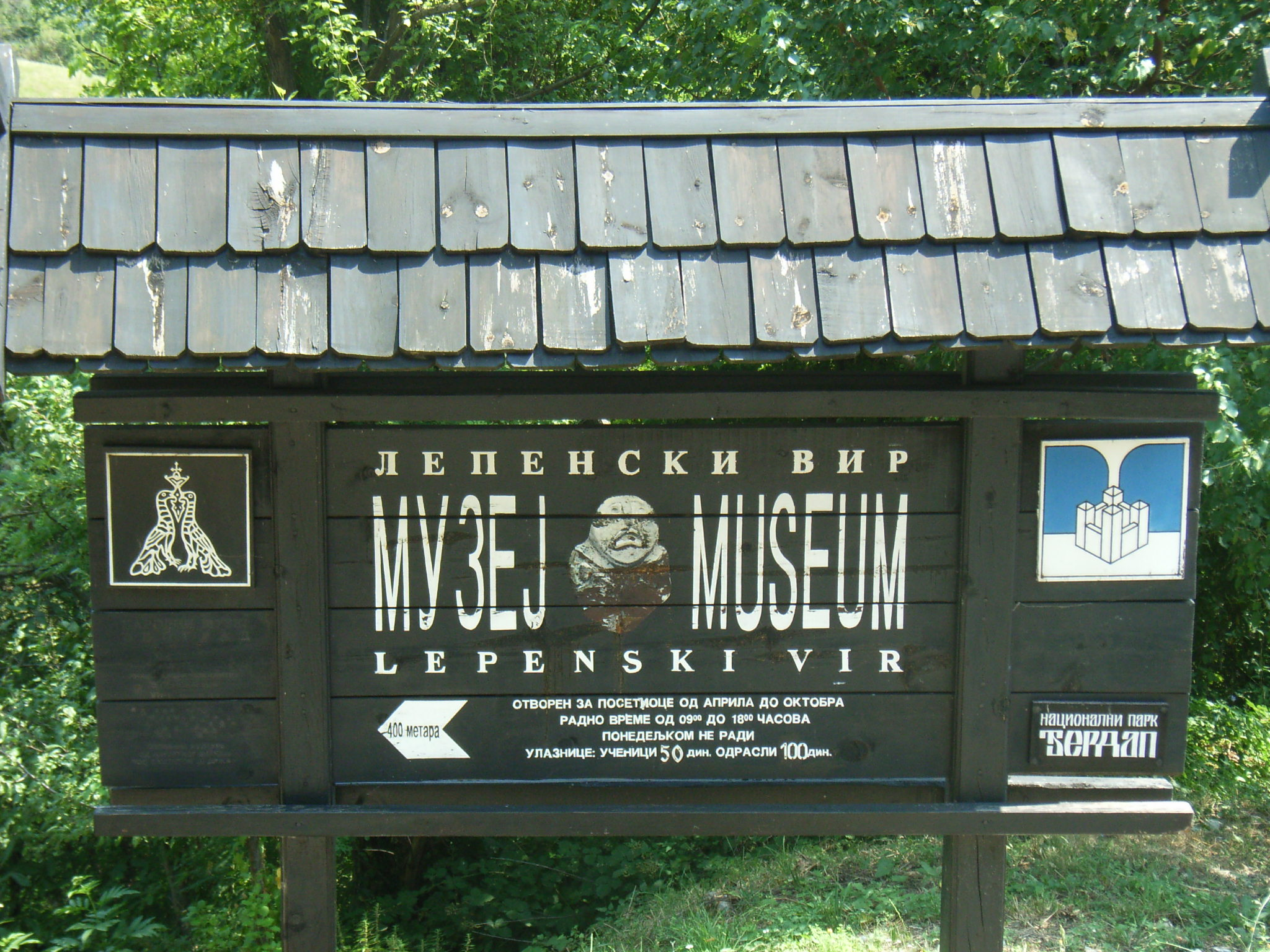 Entrance to the archaeological site Lepenski Vir in serbia